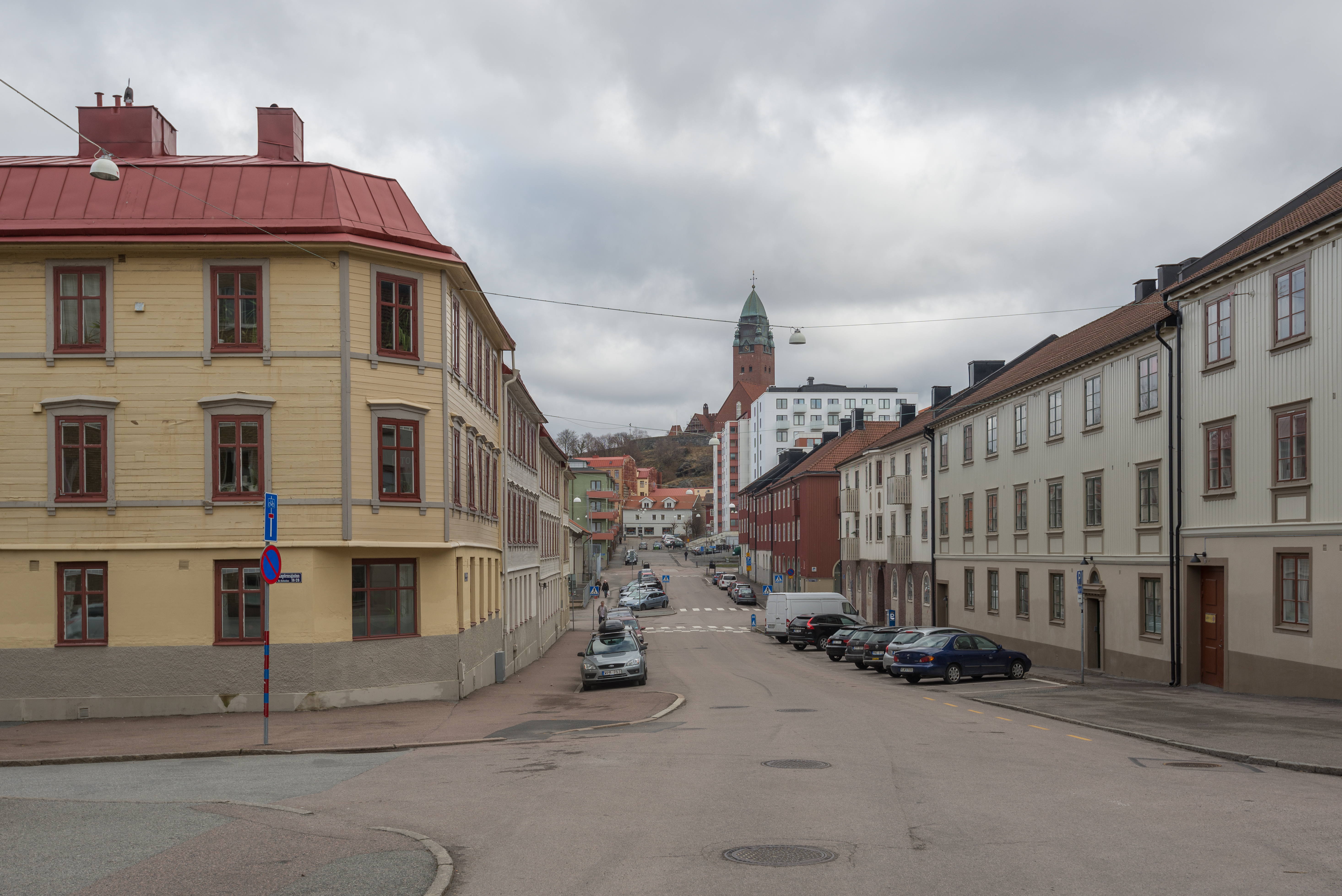 The street Amiralitetsgatan in Majorna, Göteborg. City blocks Kolumbus (höger) and Saturnus left.